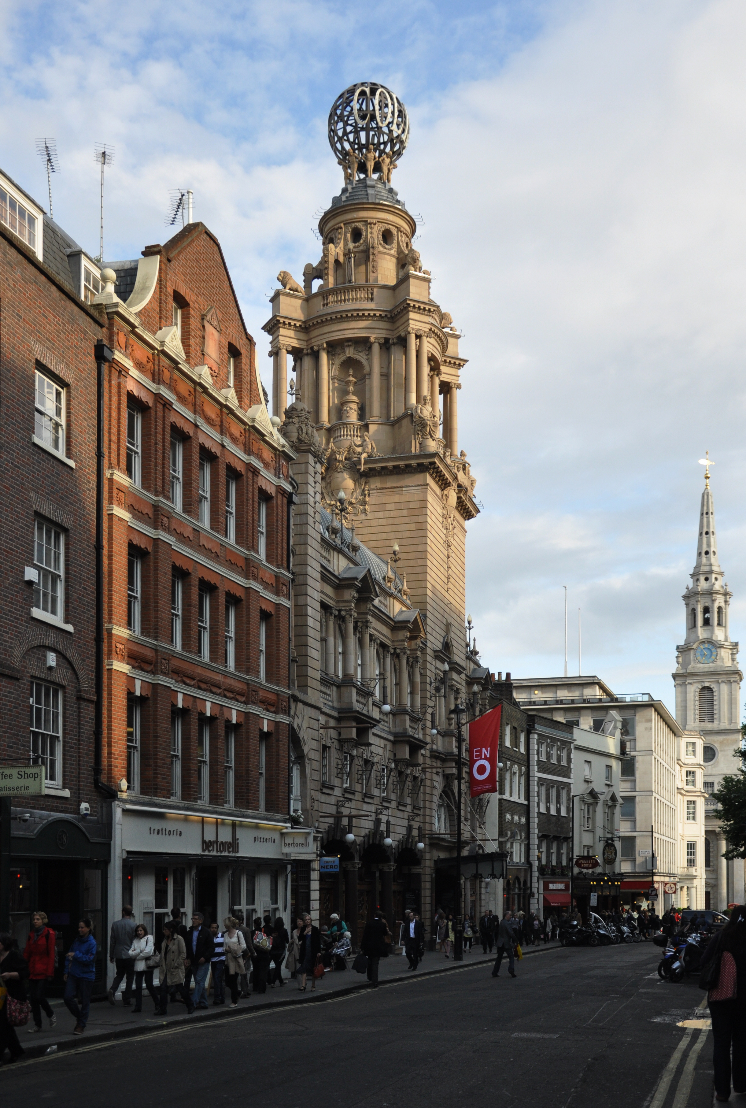 London, Coliseum Theatre